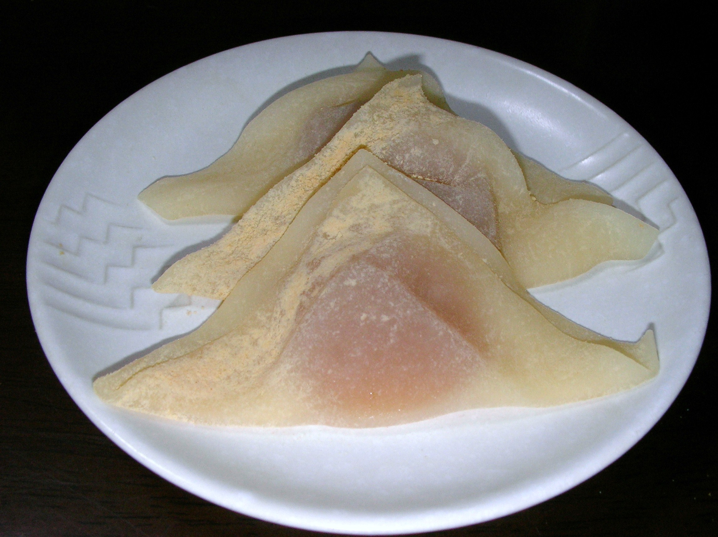 "Hijiri", wrapped white bean paste and peach jam in the raw yatsuhashi. Producer: Shōgoin yatsuhashi sōhonten (Kyoto city, Japan)